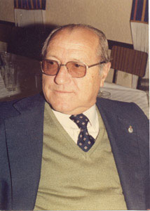 Photo of the Catalan composer Jose Maria Ferrero Pastor